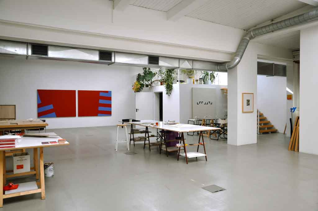 Estudio, Nuremberg 2013